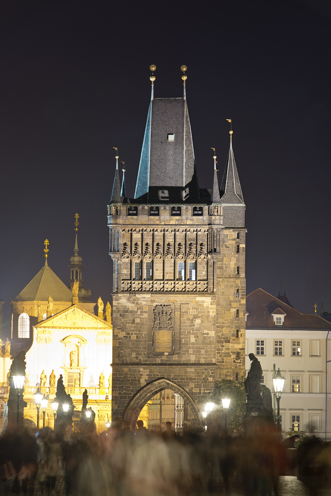 Old Town Bridge Tower